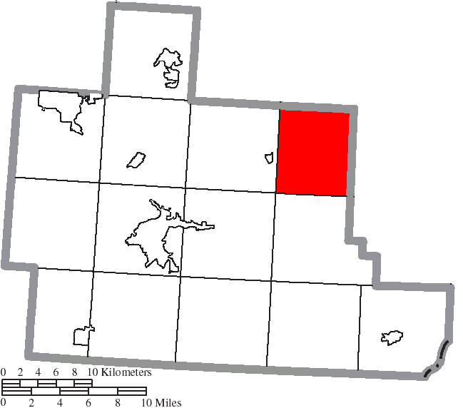 Map of the municipal and township boundaries of Athens County, Ohio, United States, as of the 2000 census, with the location of Bern Township highlighted. Township borders are shown only in unincorporated areas in order to differentiate incorporated and unincorporated areas more clearly.